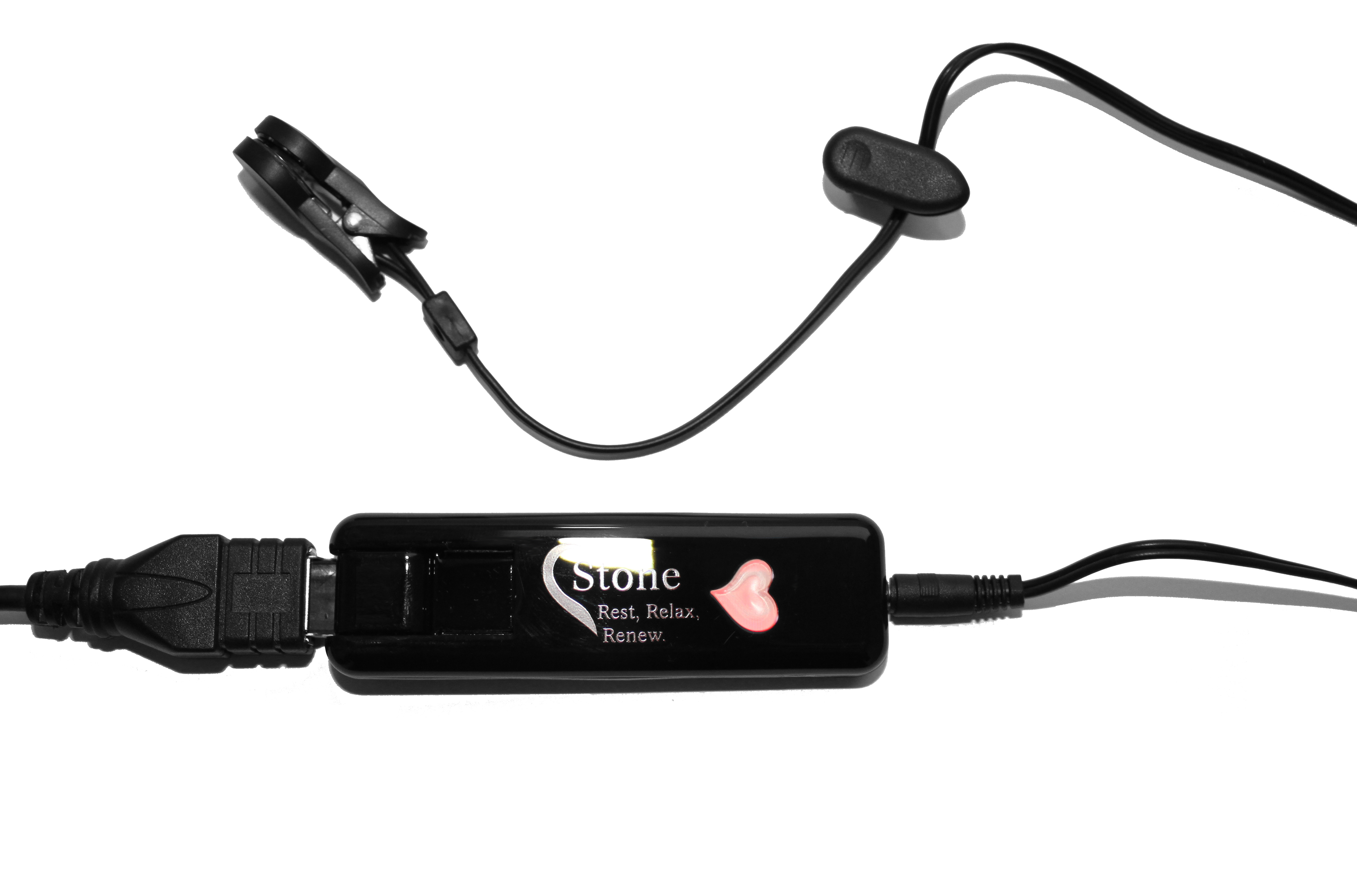 USB Dongle "Stone" heart rate variability biofeedback device with connected ear sensor.